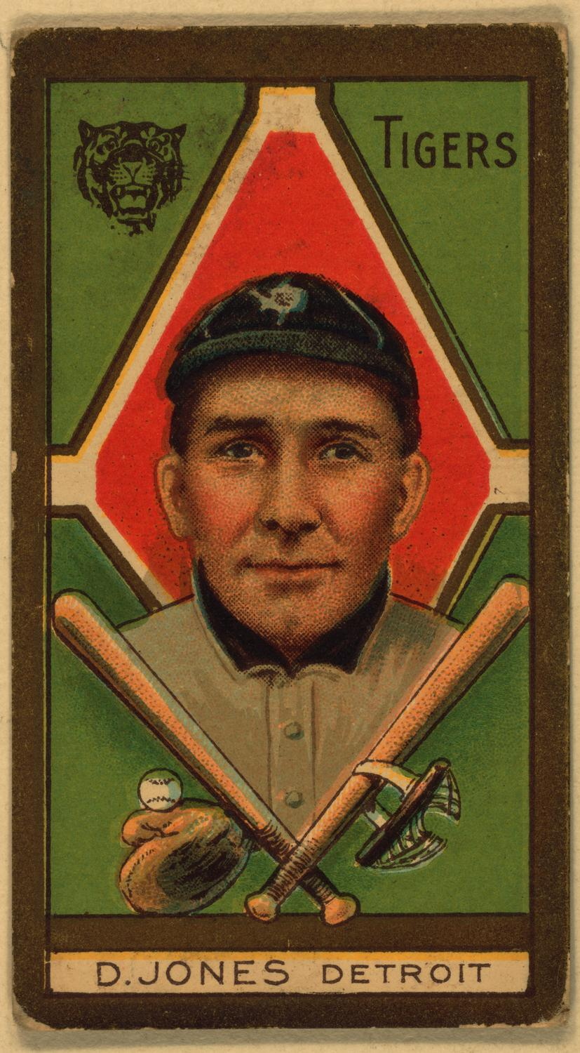 Baseball card of David Jefferson "Davy" Jones